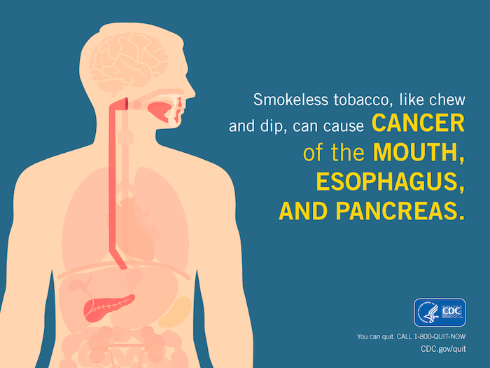 The text reads: Smokeless tobacco, like chew and dip, can cause CANCER of the MOUTH, ESOPHAGUS, AND PANCREAS.